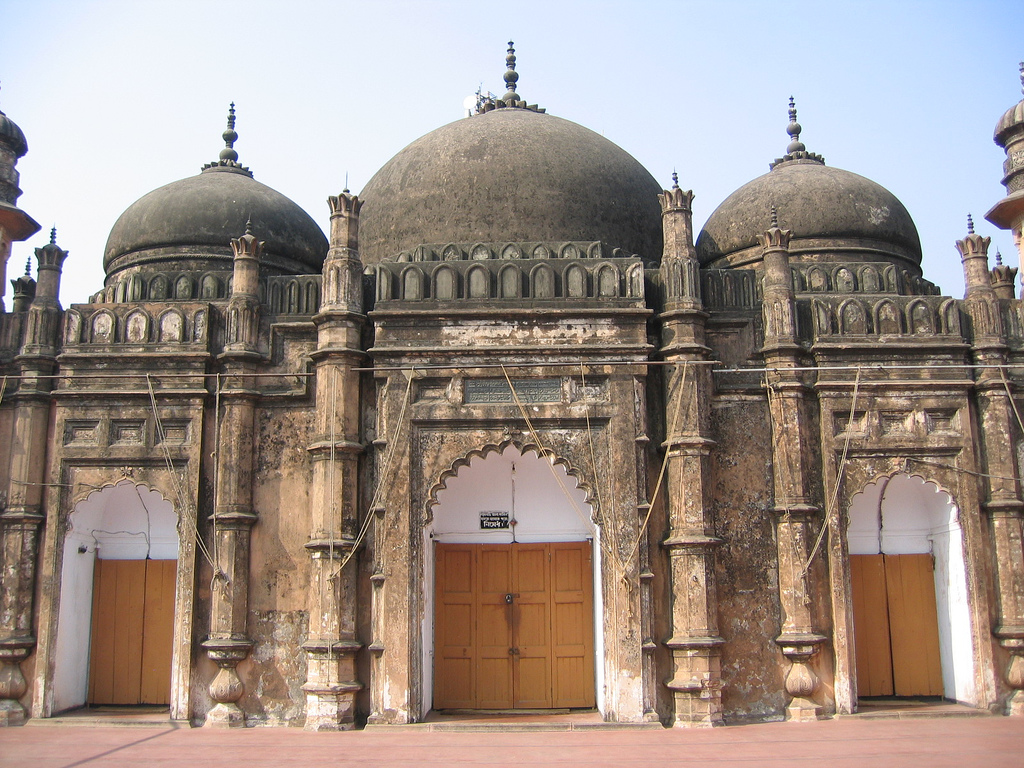 The Khan Mohammad Mirdha's Mosque in Dhaka, built in 1706.